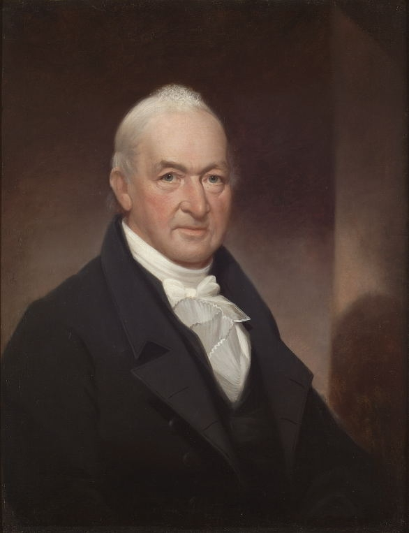 Painting of Congressman Benjamin Tallmadge by Ezra Ames.